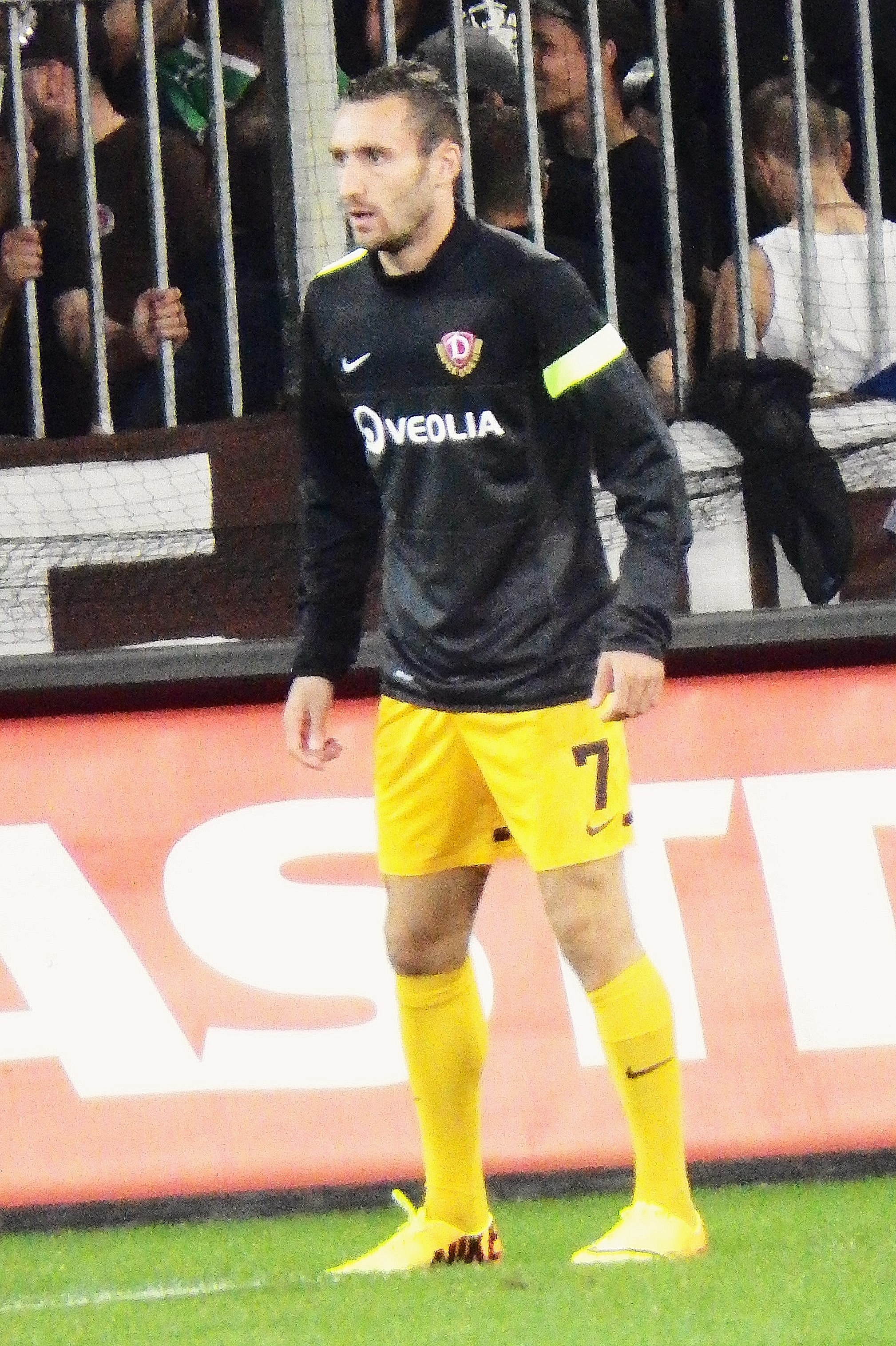 Idir Ouali as Player of Dynamo Dresden